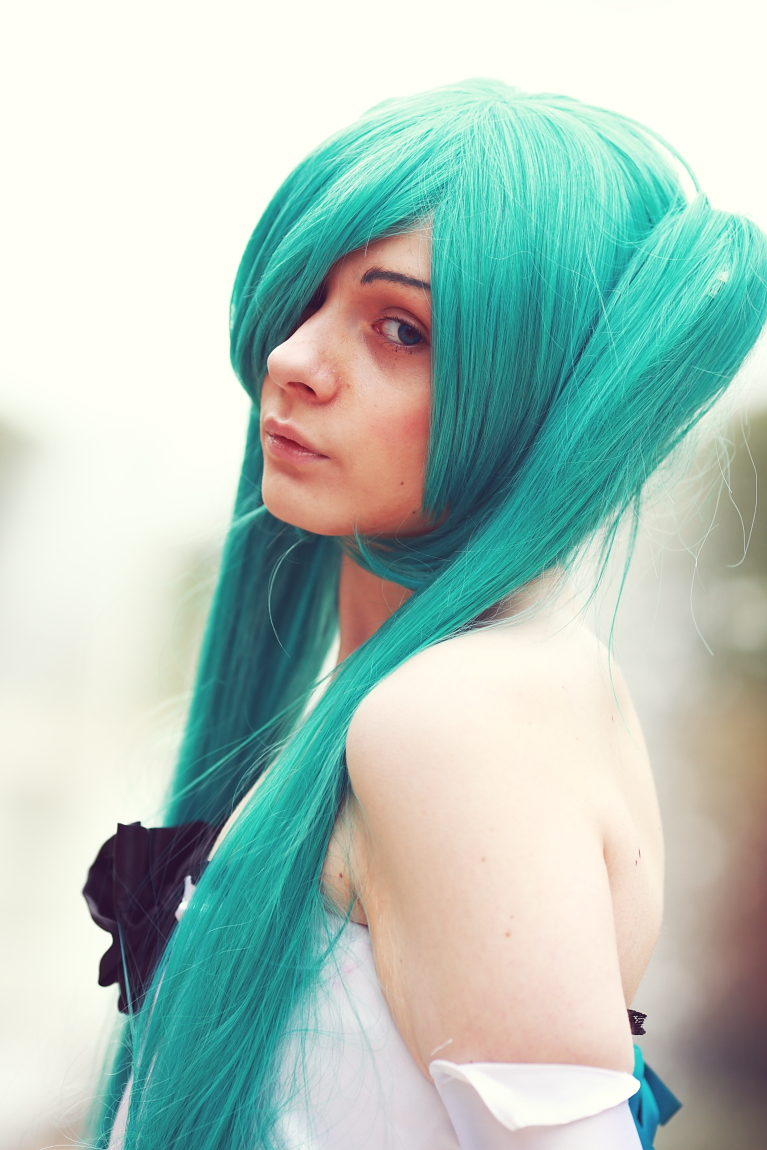 Cosplay of Miku Hatsune (Vocaloid).